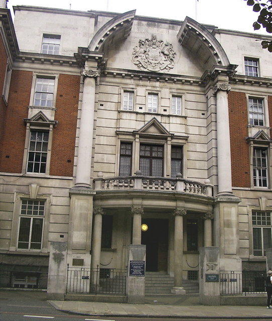 Located on Tooley Street at Tower Bridge Road Bermondsey SE1